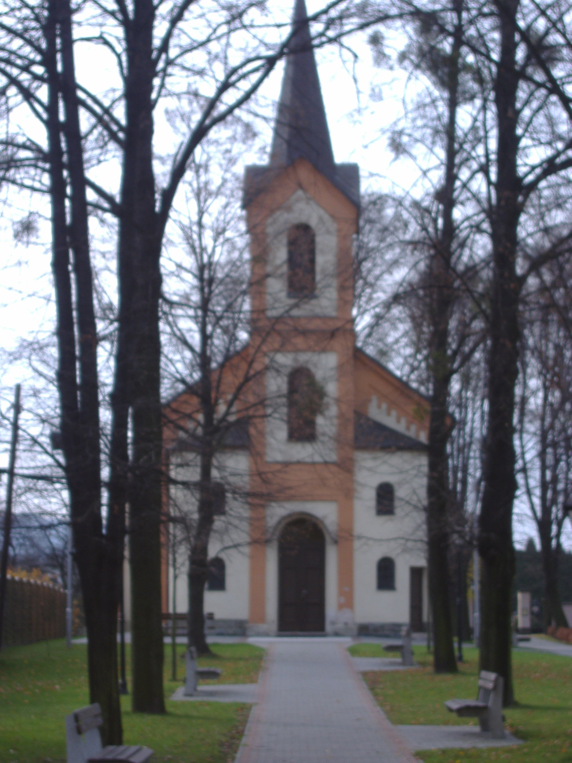 Chapel of John of Nepomuk in Sviadnov.